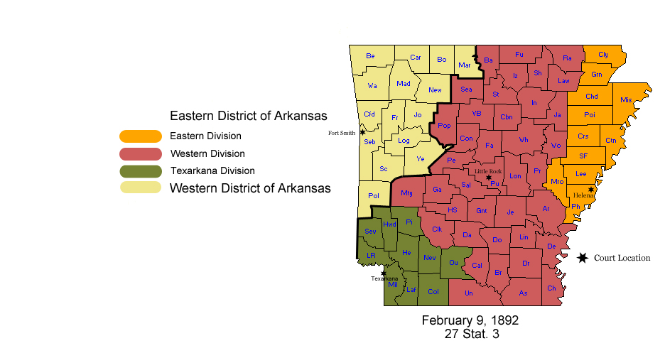 Arkansas districts - 1892